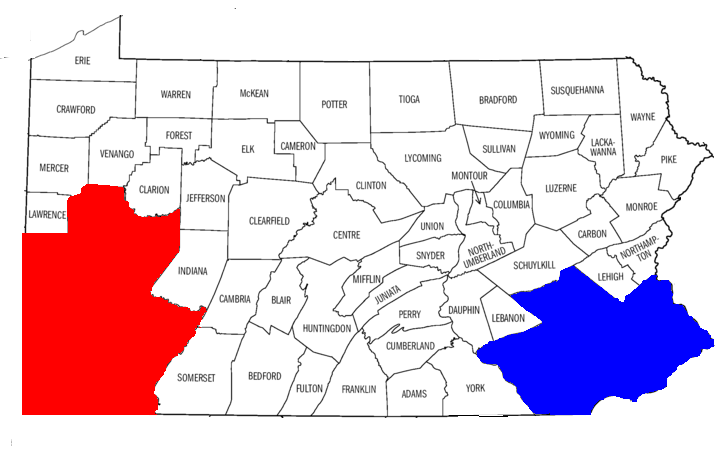 Made image by altering Image:US Census Bureau Pennsylvania County Map.png